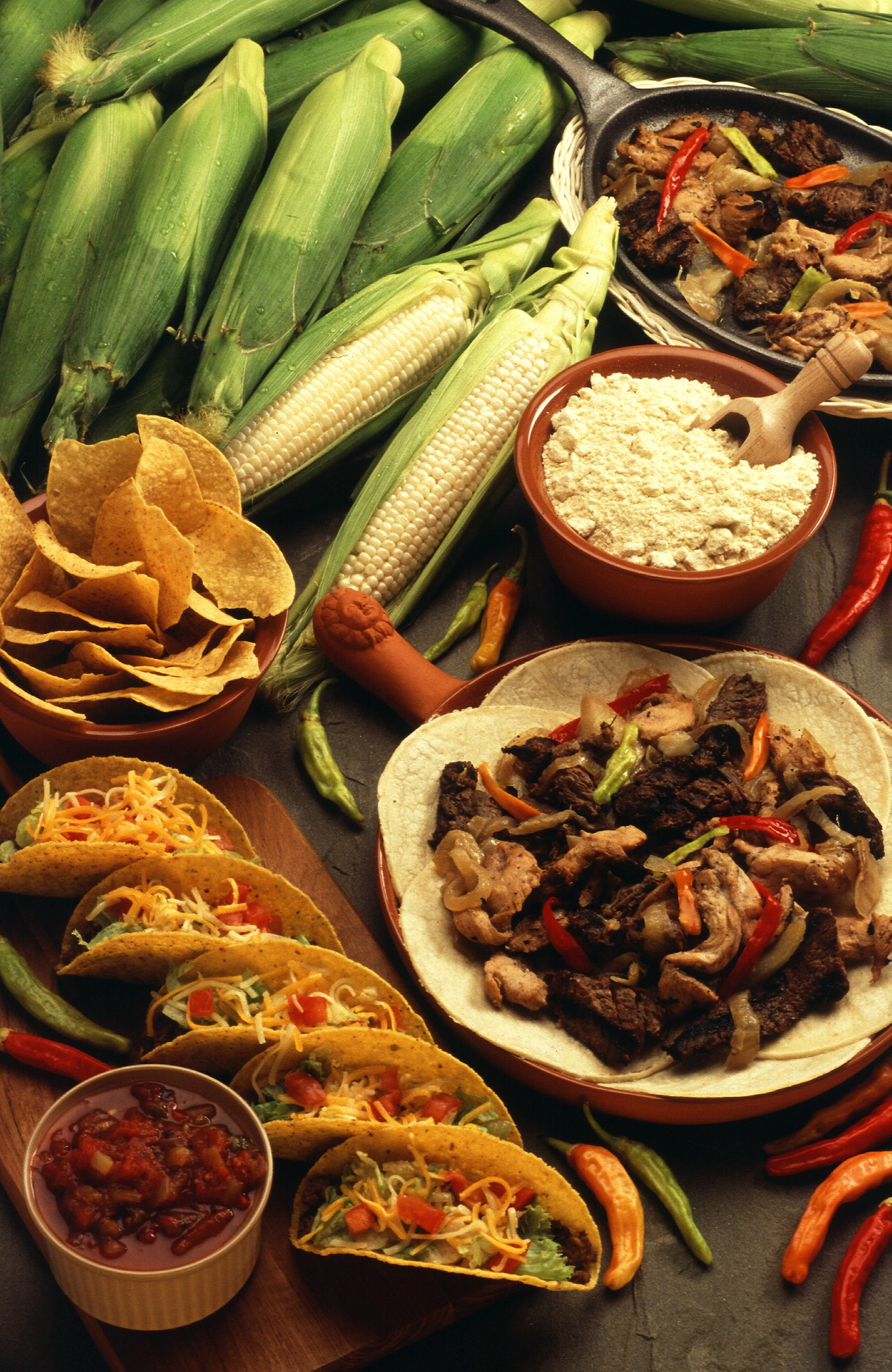 cornmeal products such as tortillas and taco shells